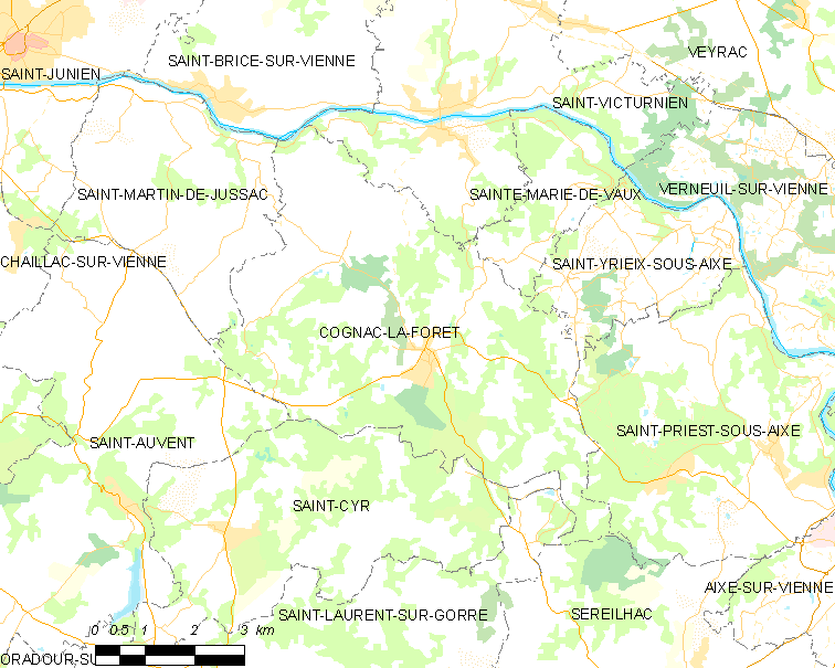 Map of French municipality Cognac-la-Forêt